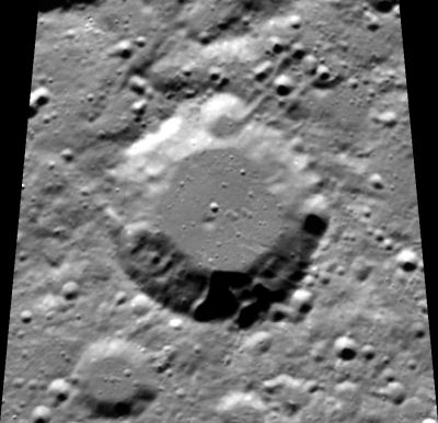 Heymans far side lunar crater - Clementine image